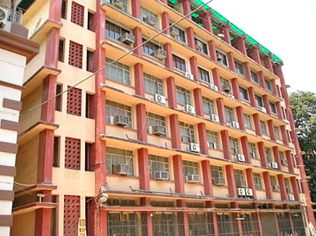 A Library and several Sections are housed in the new building